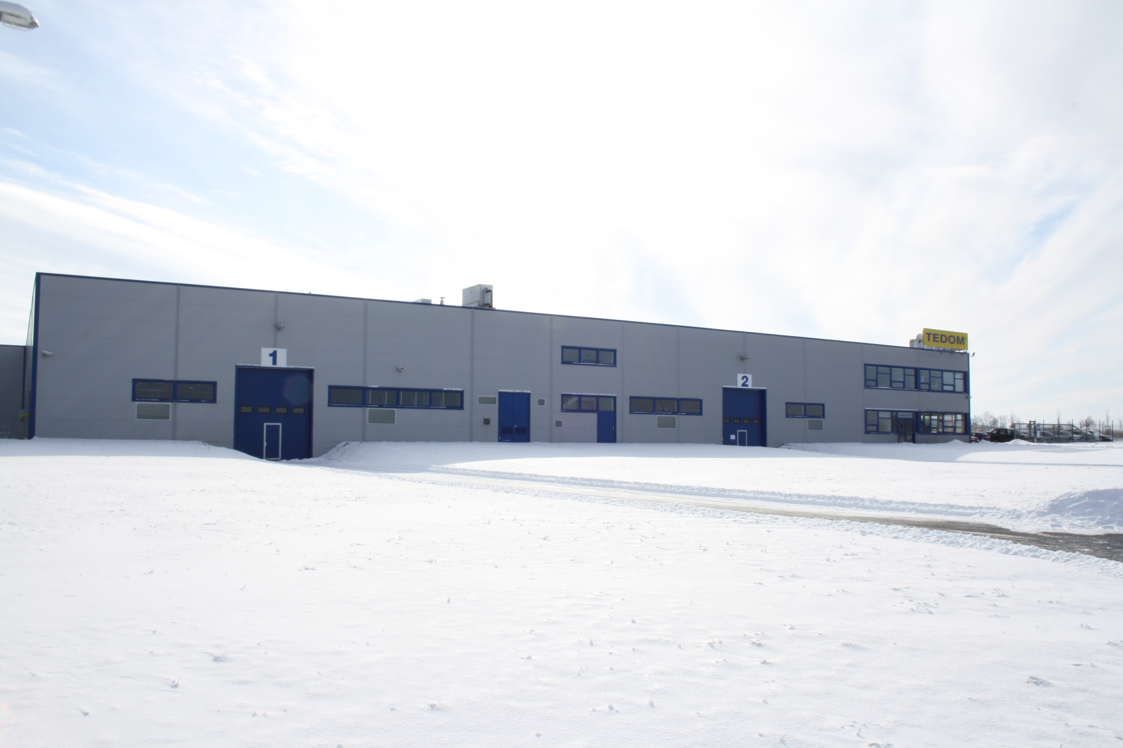 Overview on TEDOM factory in Třebíč, Horka-Domky.